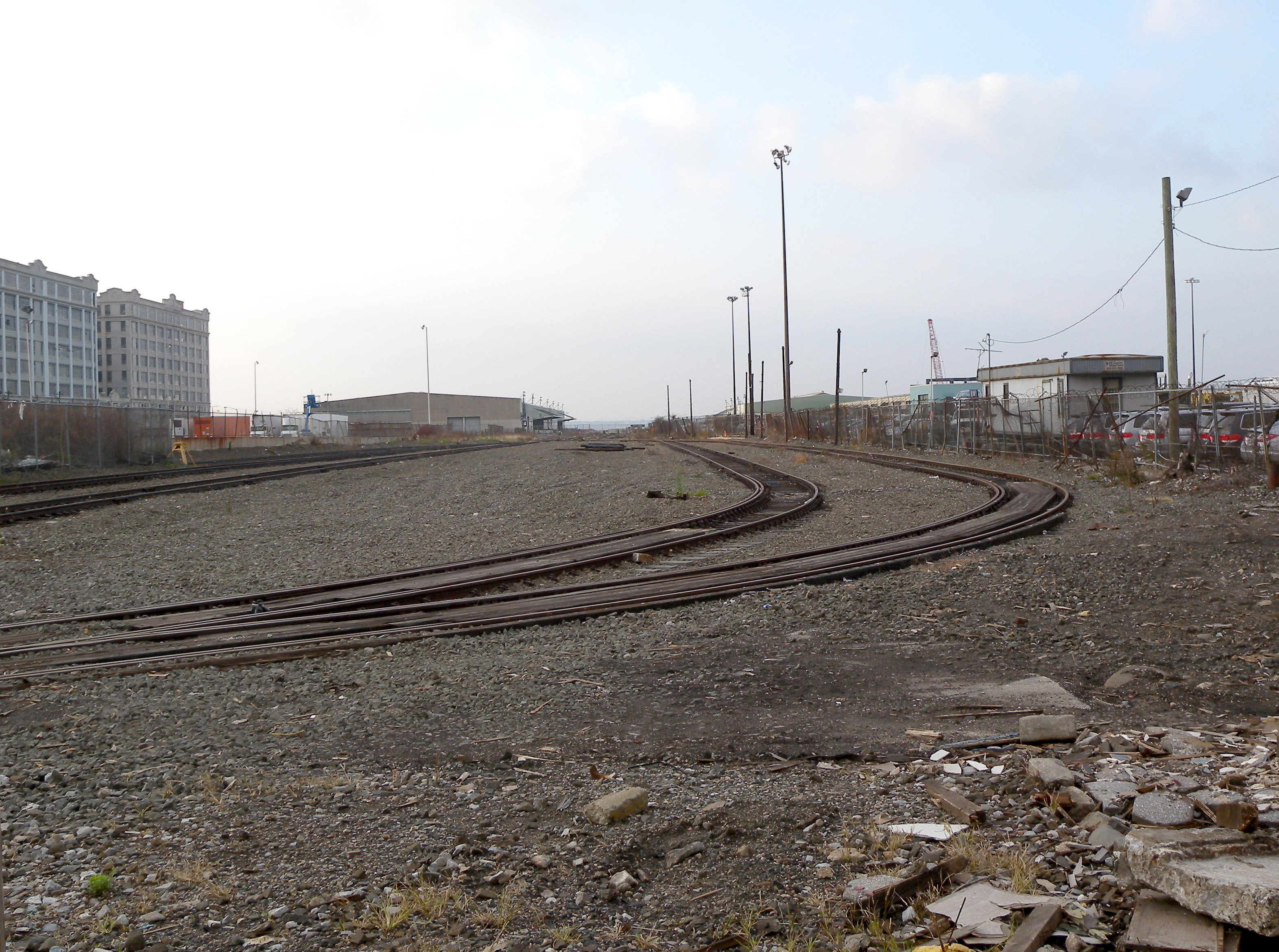 Looking northwest from Second Avenue & 38th Street on a cloudy Thanksgiving afternoon, at the 39th Street Yard of the former South Brooklyn Railway connected to the Culver Trench, one of two connections between the subway and the national rail network.